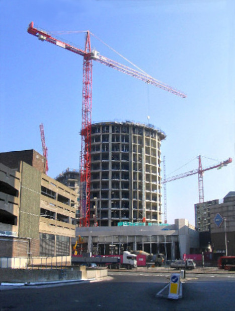 Re-development of The Dolphin site, Romford. The Dolphin, an unwanted & unloved leisure centre has been demolished - work in progress on building new flats and shops.